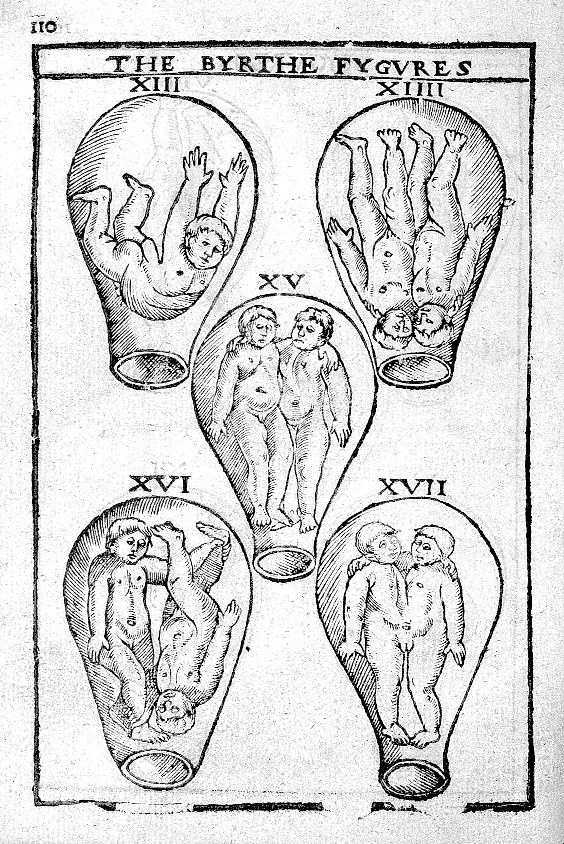 Birth Figures Rare Books Keywords: conjoined twins; Obstetrics; Twins; Teratology; Twins, Conjoined